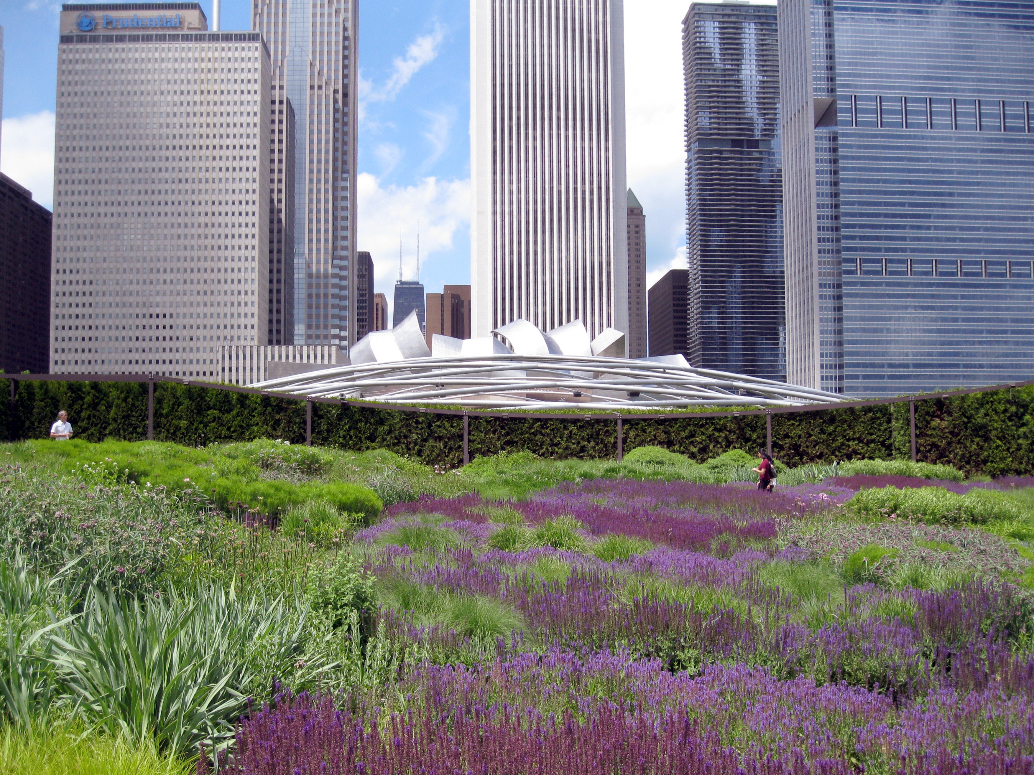 Lurie Garden in Millennium Park, Chicago, Illinois, USA (with Randolph Street skyscrapers in background)